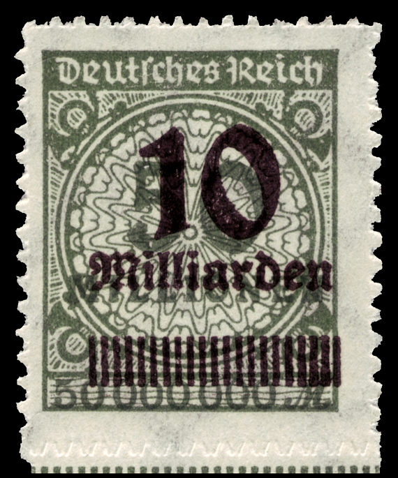 definitive stamp series numbers with overprints Ausgabepreis: 10 Milliarden Mark auf 20 Millionen Mark First Day of Issue / Erstausgabetag: 17. November September 1923 Michel-Katalog-Nr: 336B (Deutsches Reich)